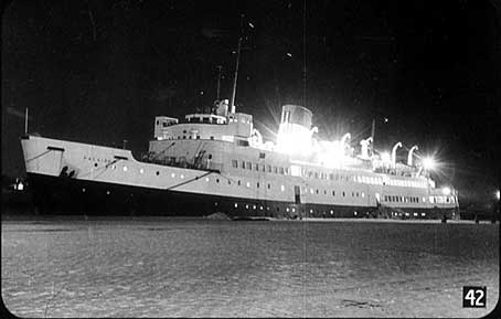 British Railways filmstrip Lecture note for this slide is: "42) Here’s something bigger – that fine ship, the Falaise, the Southern Region’s first post-war vessel. She was designed for all kinds of cross-Channel. work. Now she’s in service on the Southampton – St. Malo route to France, and during the summer months has taken passen-gers on weekend cruises from England, across the Channel and up the river Seine as far as Rouen – and all for nine guineas! She has also run between Dover and Calais on the short sea route to the Continent. Voyagers think her one of the steadiest of cross-Channel ships, for she has underwater fins six feet wide which can be extended in rough weather to reduce rolling. They are operated by a press-button on the bridge."